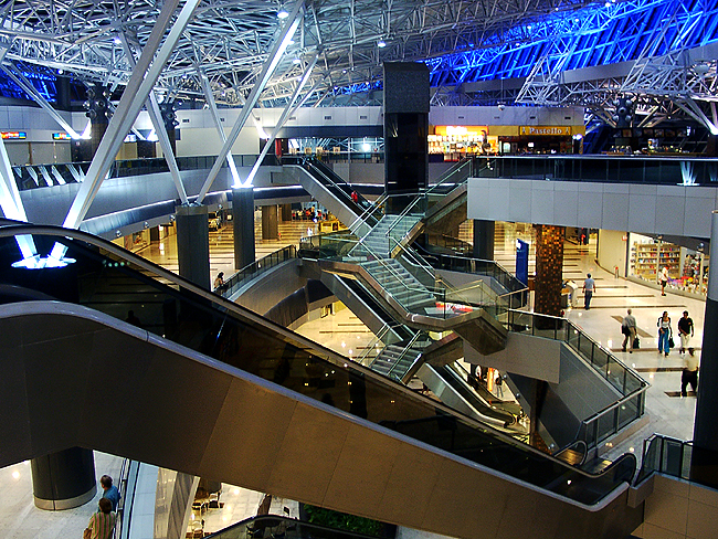 Recife, BrazilRecife/Guararapes-Gilberto Freyre International Airport